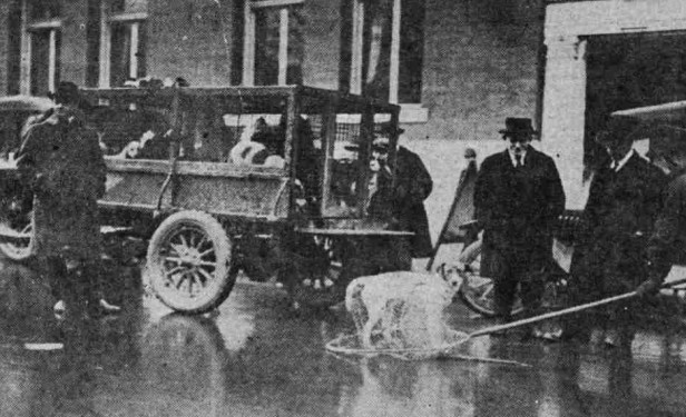 A dog catcher in Portland, Oregon in 1920.